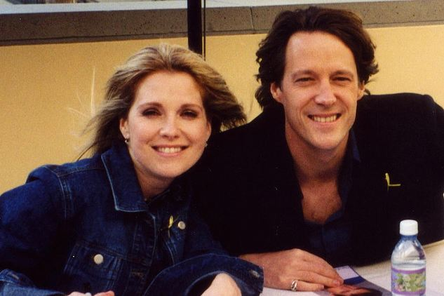 Matthew Ashford & Melissa Reeves Fan Fest 03